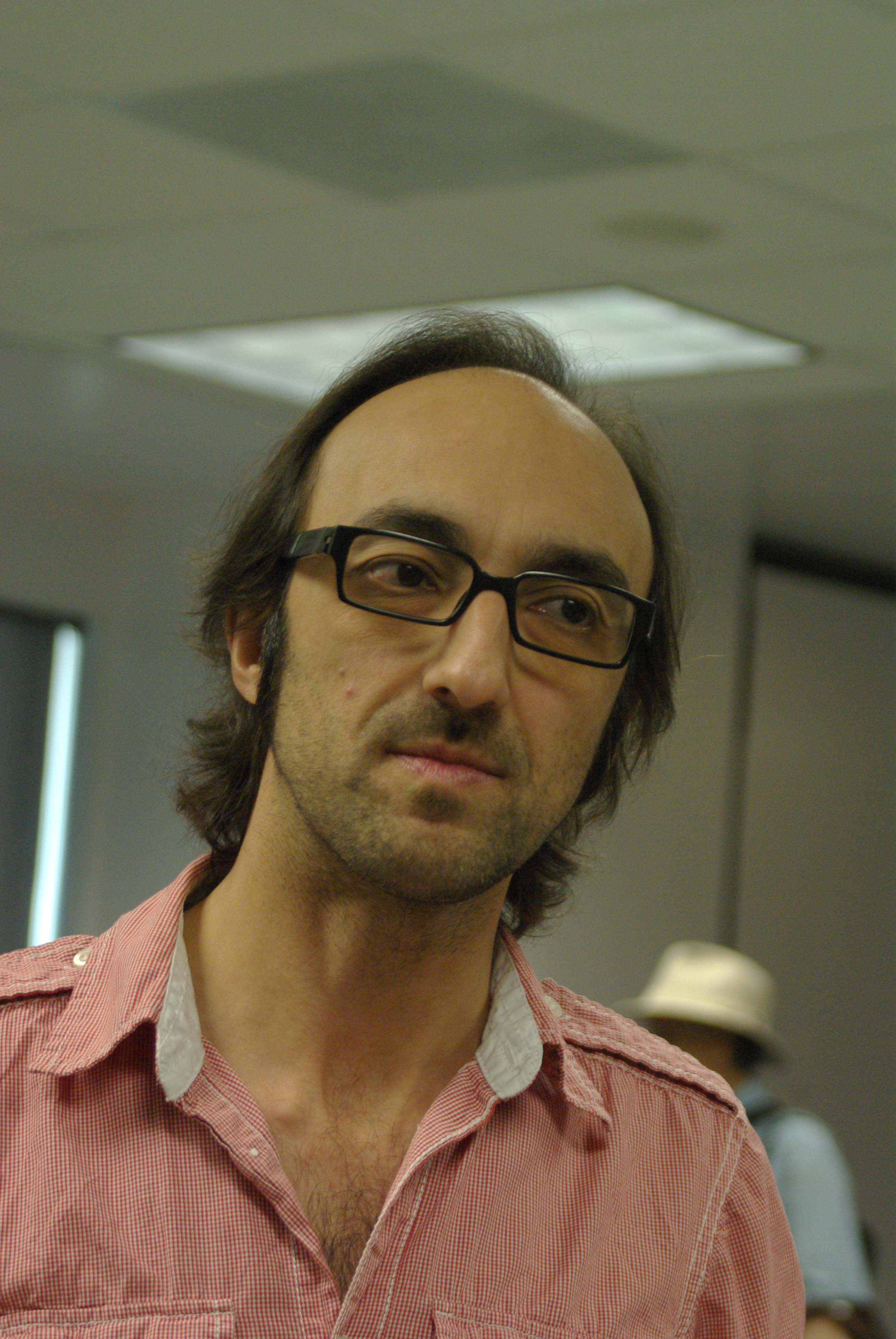 Spanish writer Agustin Fernandez Mallo at the Miami Book Fair International 2011